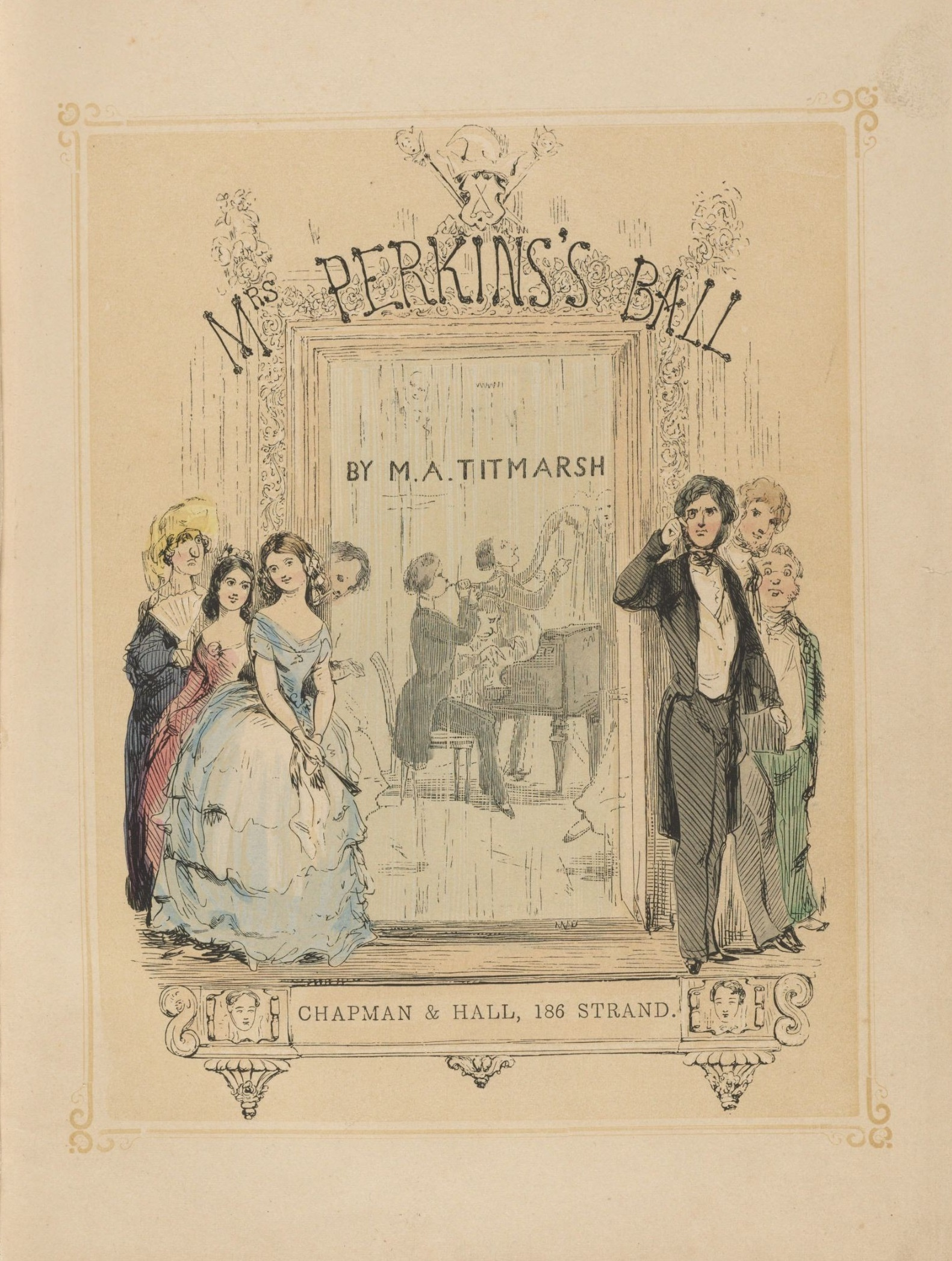 Title page from Mrs. Perkins's Ball (London: Chapman and Hall, 1847) by William Makepeace Thackeray, under the pseudonym "M. A. Titmarsh". HEW 12.6.13, Houghton Library, Harvard University